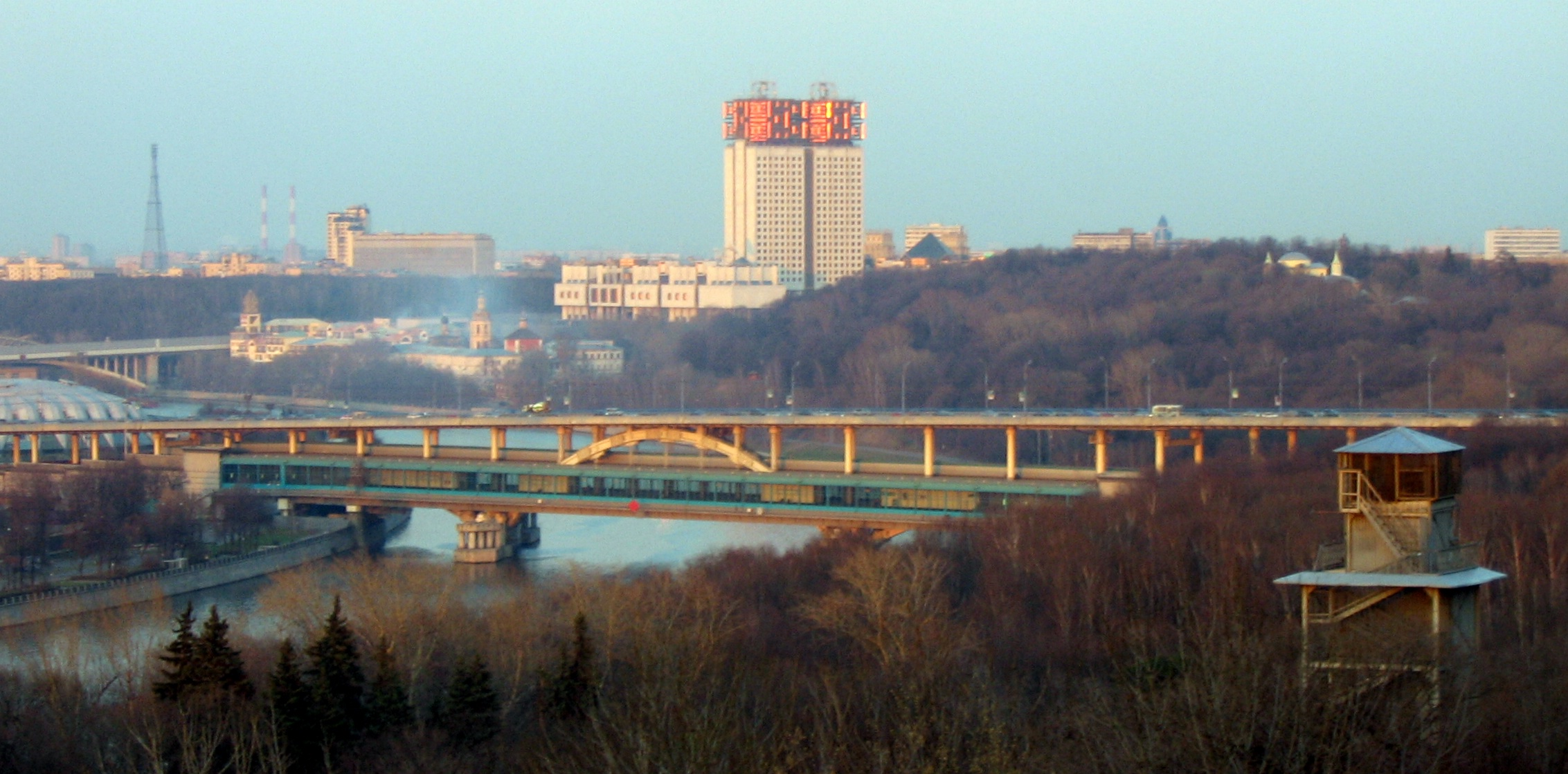 Moscow's Vorobyovy Gory Metro Station of Sokolnicheskaya Line